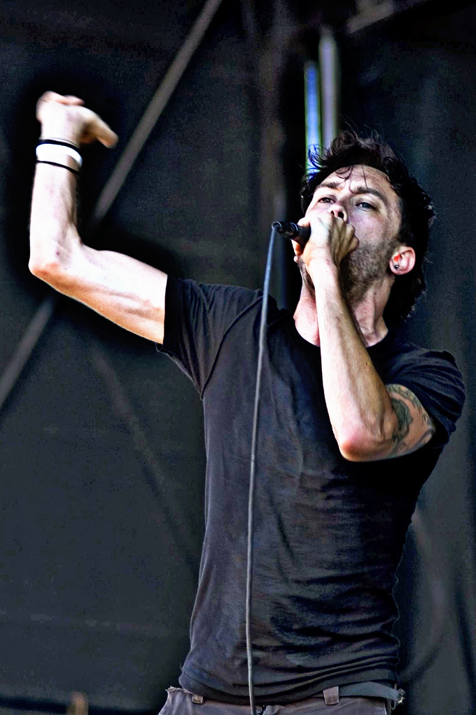 Tim McIlrath of Rise Against; Warped Tour 2006